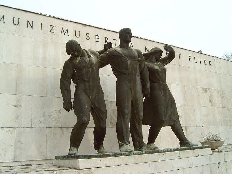 The Labor Movement Pantheon in Budapest's Kerepesi Cemetery. (Sculptor: Olcsai-Kiss Zoltán, Architect: Körner József)